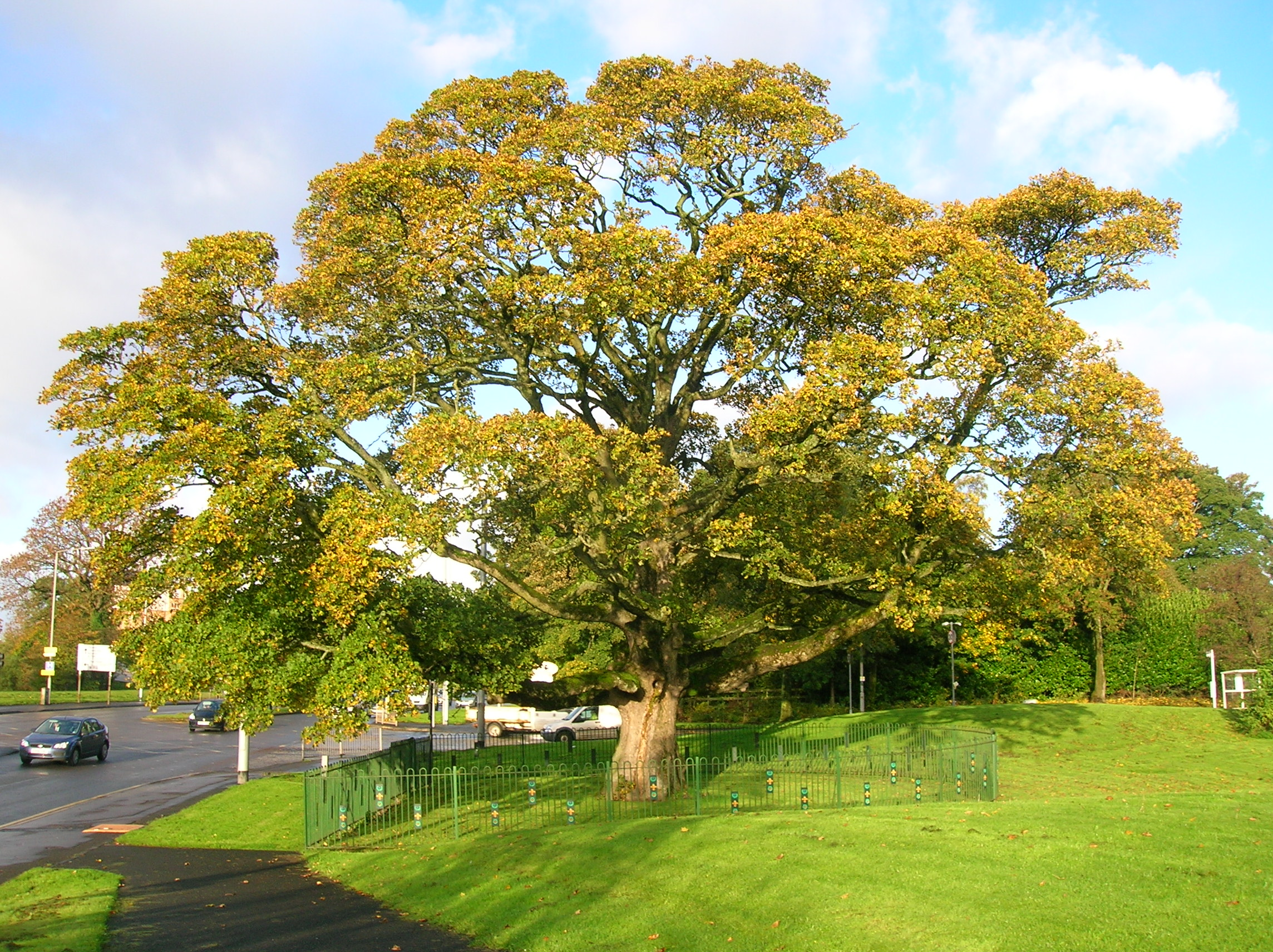 The Darnley Sycamore or Plane Tree. Mary Queen of Scots nursed her husband - the Earl of Darnley- back to health under this tree - allegedly.